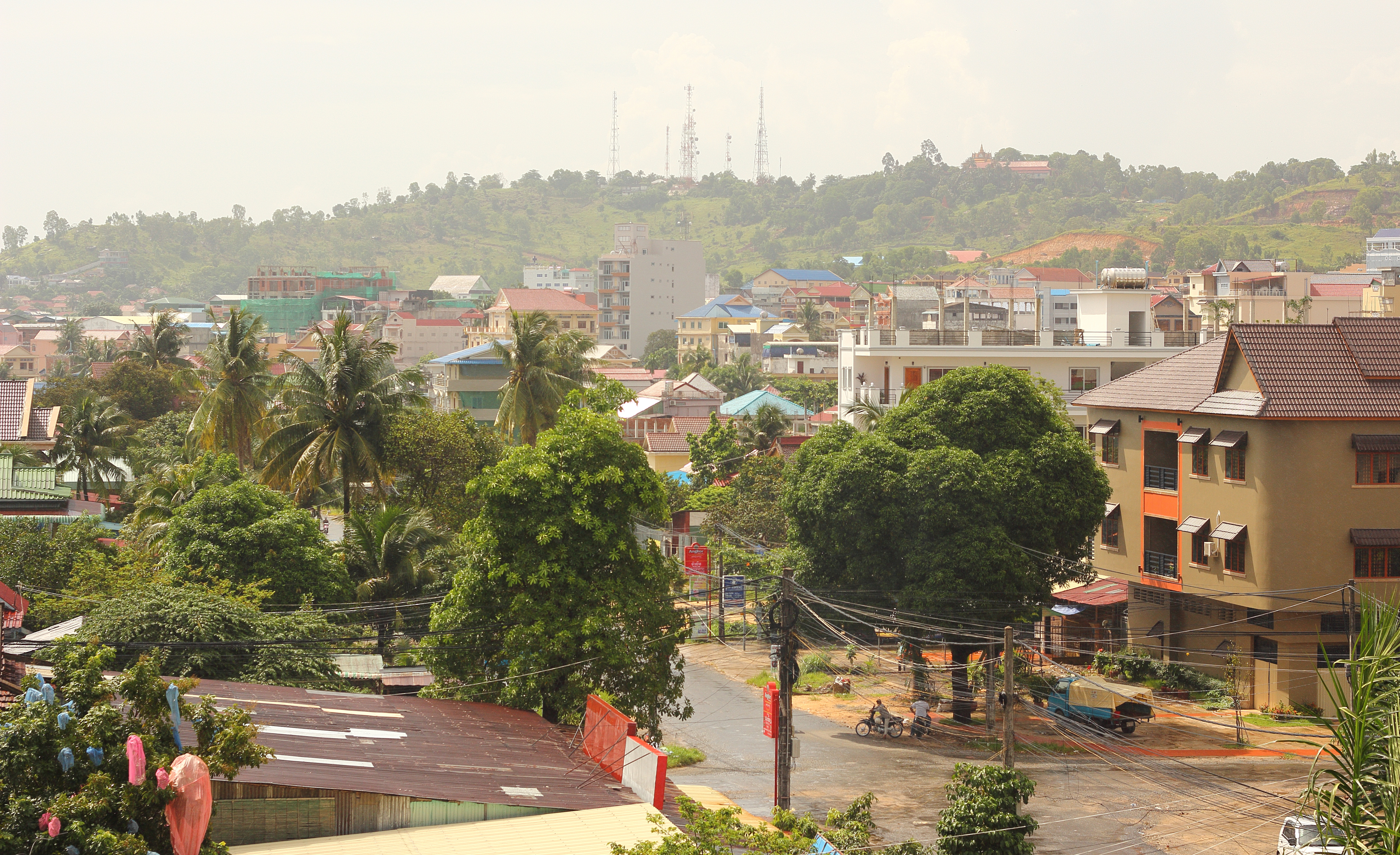 Cambodian - Sihanoukville Province ភាសាខ្មែរ: កម្ពុជា - ខេត្តព្រះសីហនុ